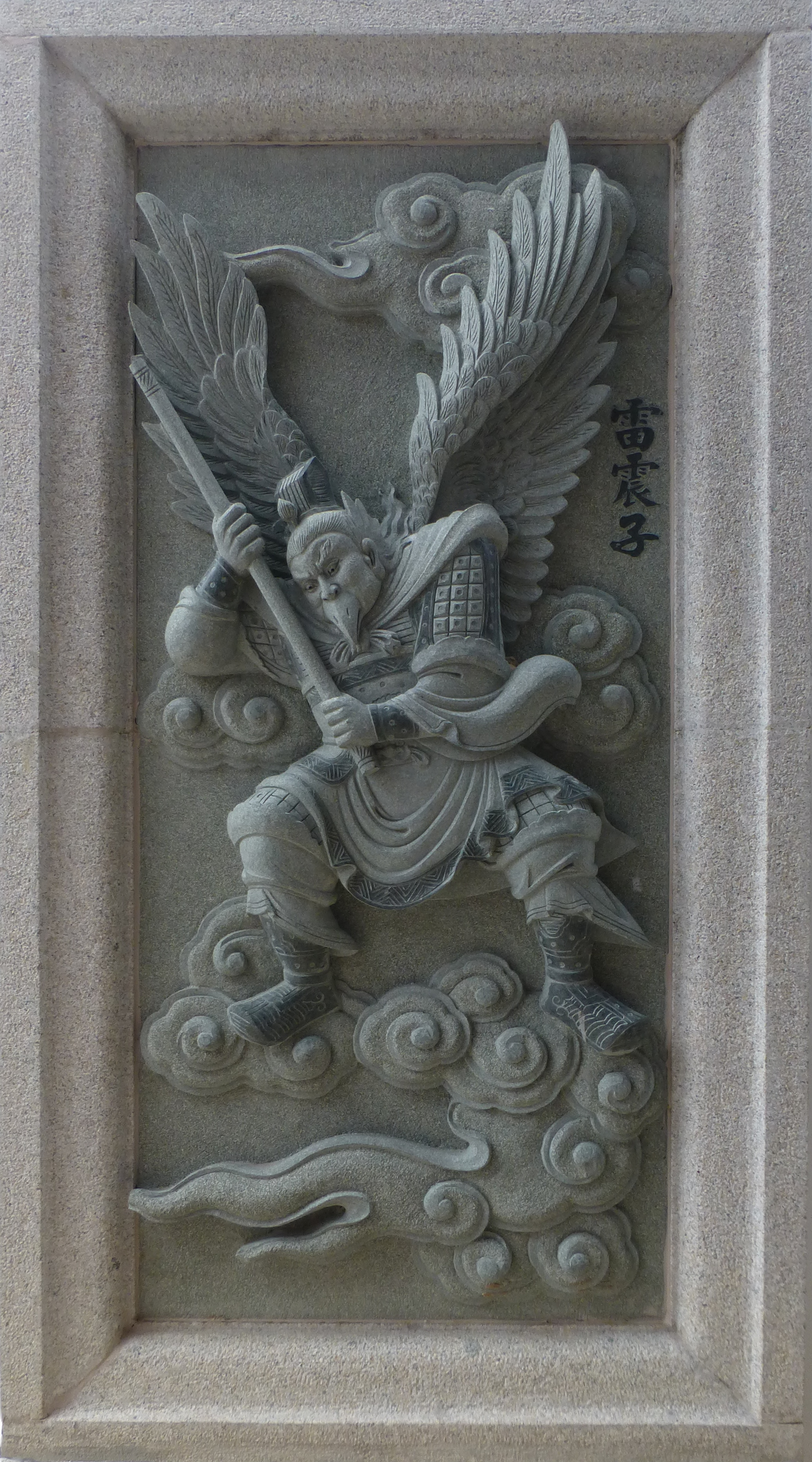 044 Le izhen zi, Investiture of the Gods at Ping Sien Si, Pasir Panjang, Perak, Malaysia Photograph from the Ping Sien Si Temple in Perak, Malaysia taken by Anandajoti.